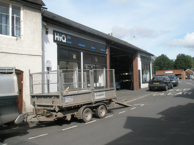 HiQ in Corve Street